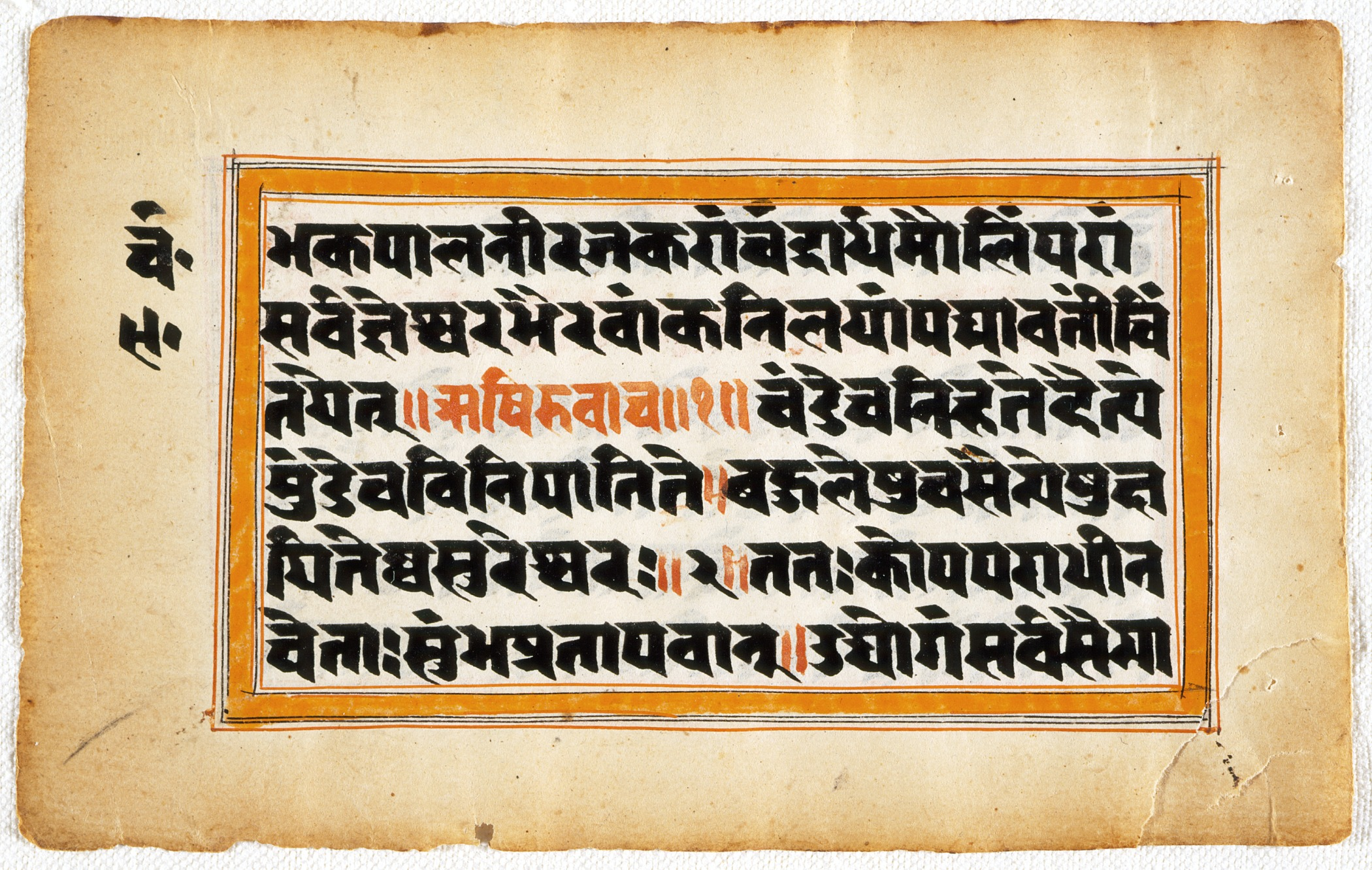 India, Jammu and Kashmir, Kashmir region, late 18th century Books Ink and opaque watercolor on paper 3 7/8 x 6 1/4 in. (9.84 x 15.88 cm) Gift of Mr. and Mrs. Julian Ganz, Jr. (M.82.62.1) South and Southeast Asian Art